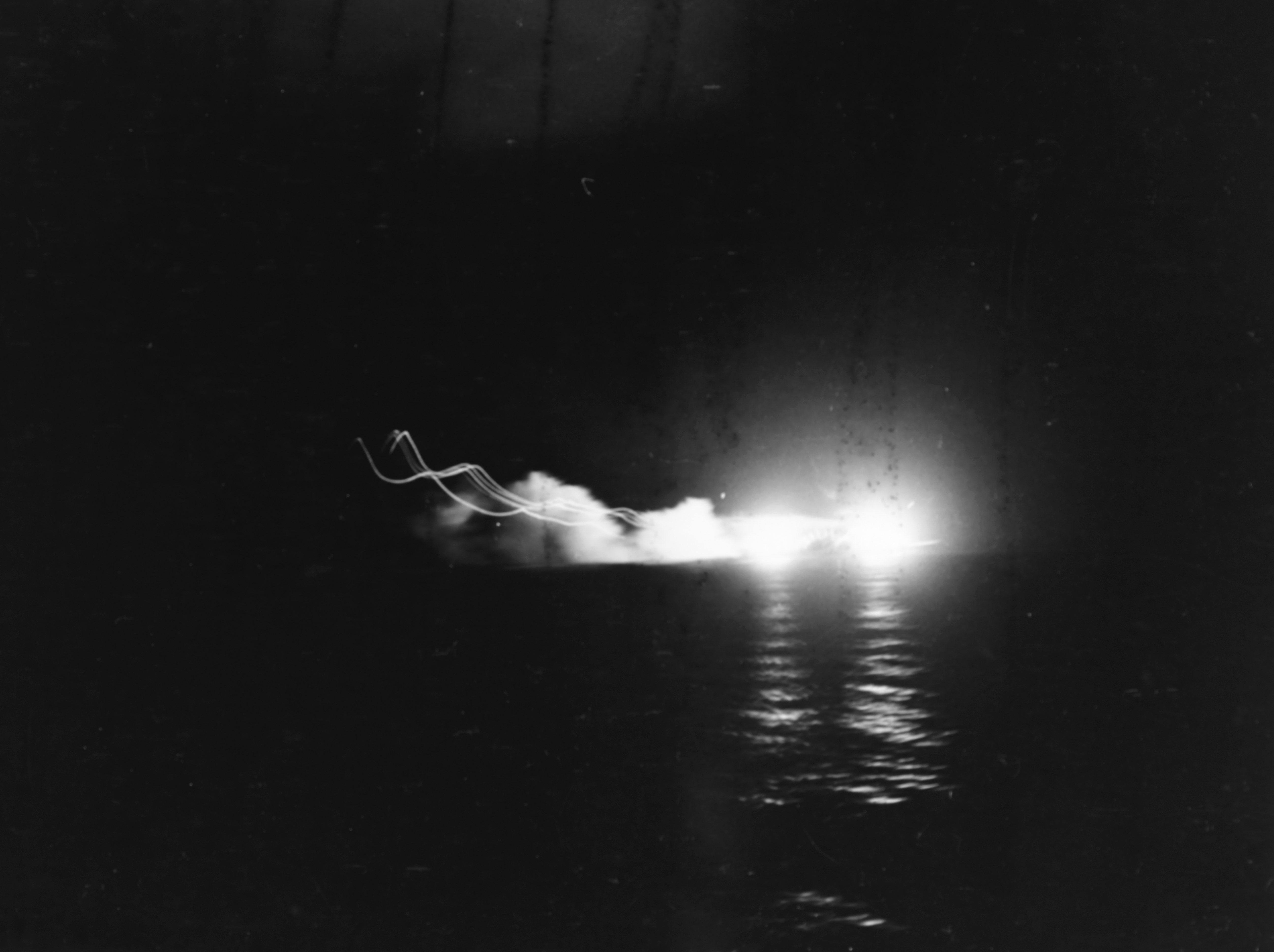 The U.S. Navy light cruiser USS St. Louis (CL-49) and other ships firing during the Battle of Kolombangara, 13 July 1943. This is probably the battle's initial engagement, in which the Japanese light cruiser Jintsu was sunk by gunfire and torpedo hits and HMNZS Leander (75) was heavily damaged by a Japanese torpedo.